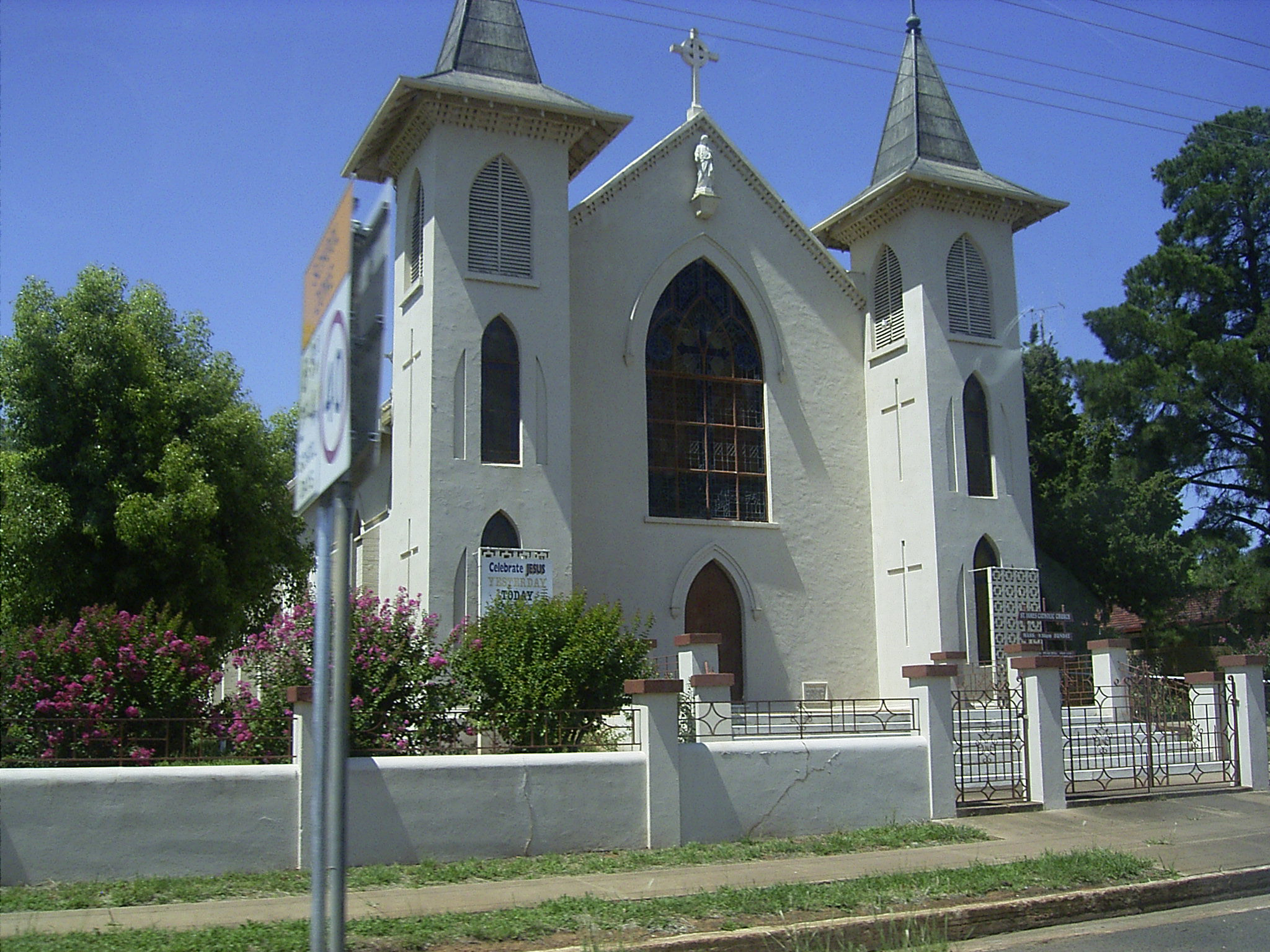 Church in the town of Peak Hill, New South Wales.